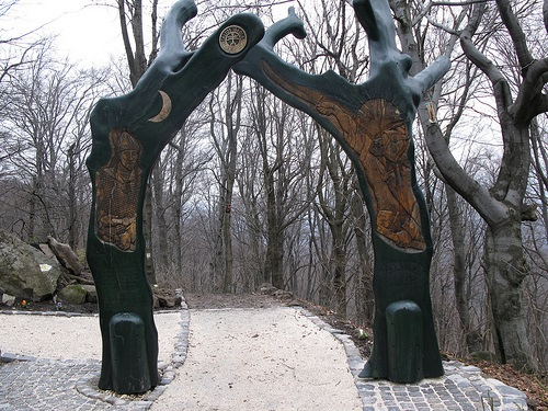 Gateway of the Noetic Taltos School (Szellemi Táltos Iskola) in Hungary. The school is associated with the András Kovács' Ancient Hungarian Taltos Church (Ősmagyar Táltos Egyház).